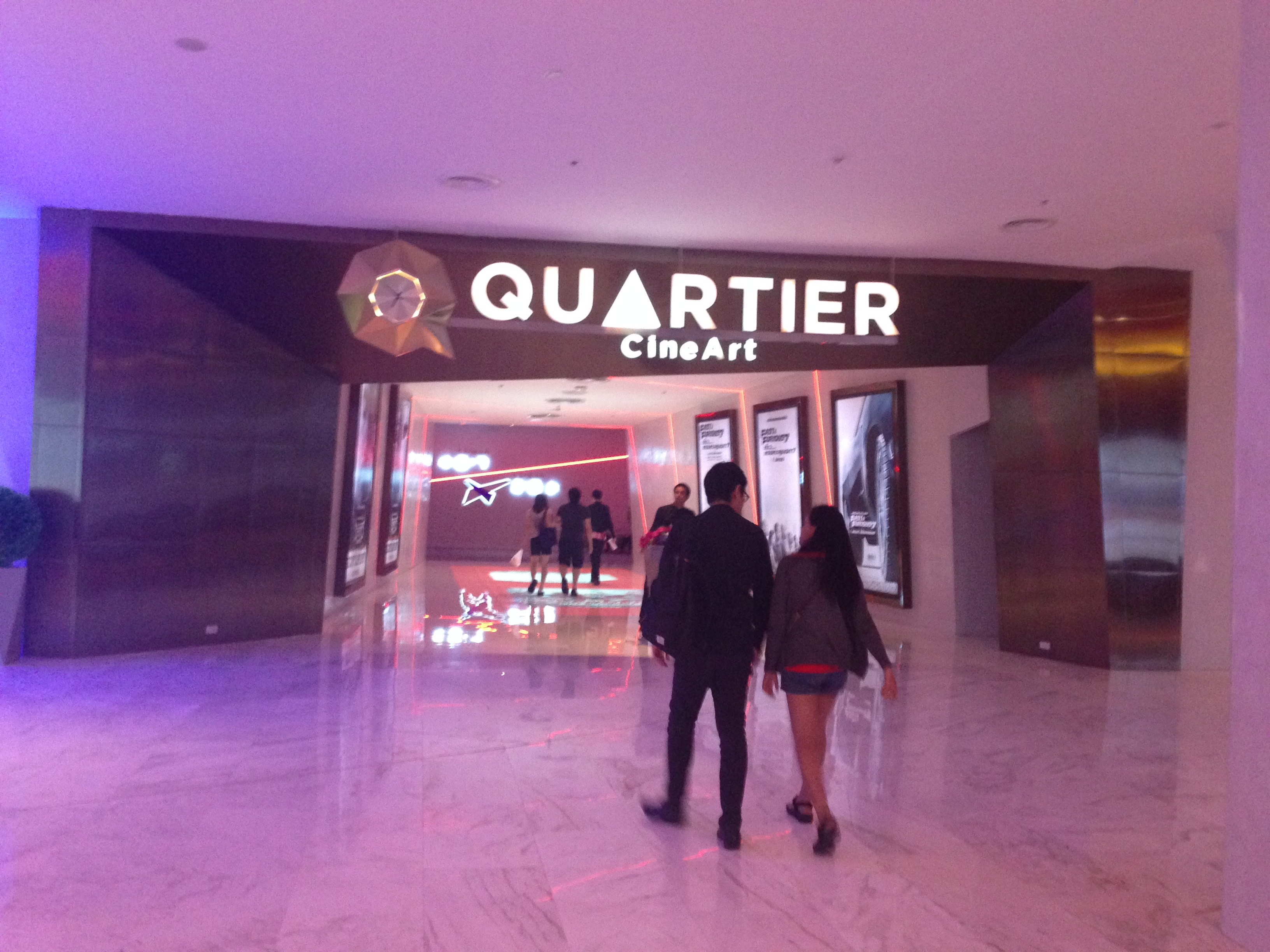 Entrance of Quartier Cineart.